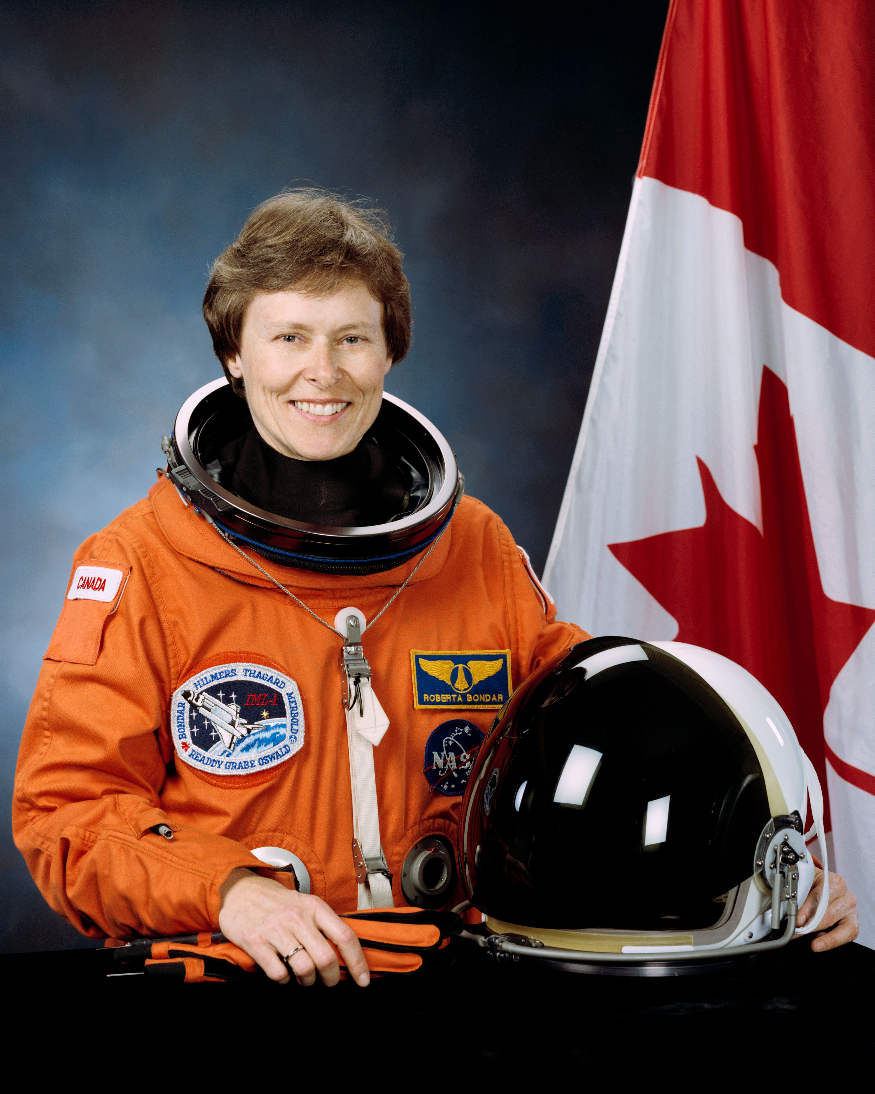 Official portrait of STS-42 Payload Specialist Roberta L. Bondar wearing orange Launch and Entry Suit (LES) with the Canadian flag displayed in the background. Bondar is representing Canada in the International Microgravity Laboratory 1 (IML-1) mission aboard Discovery, Orbiter Vehicle (OV) 103. Image ID: S91-51633